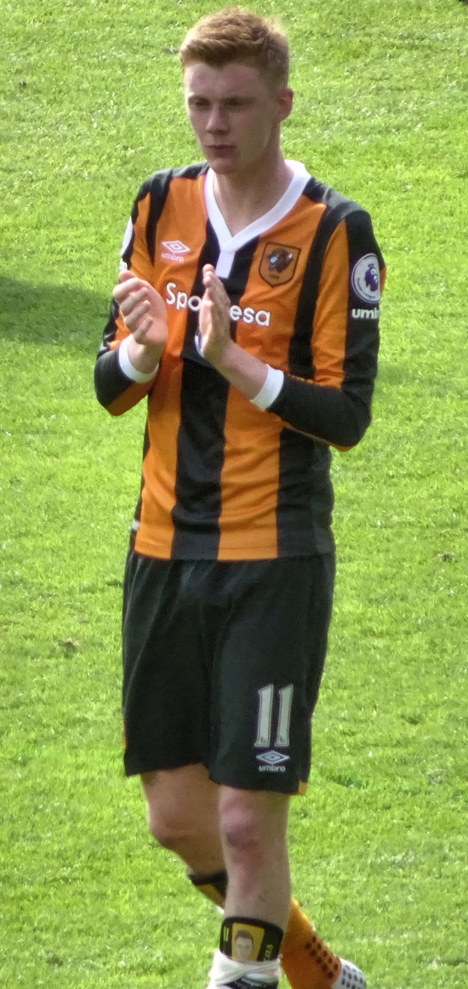 Two bright spots in the relegation season